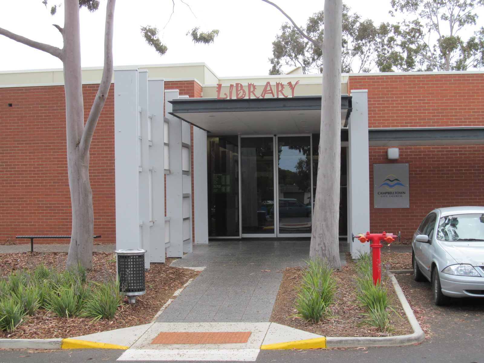 Campbelltown Public Library in Montacute Road, Newton, South Australia